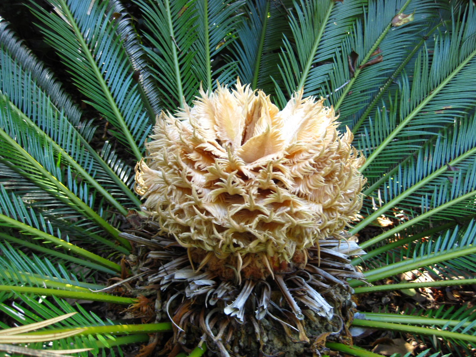 Photographed at the Royal Botanic Gardens Sydney (Australia) in December